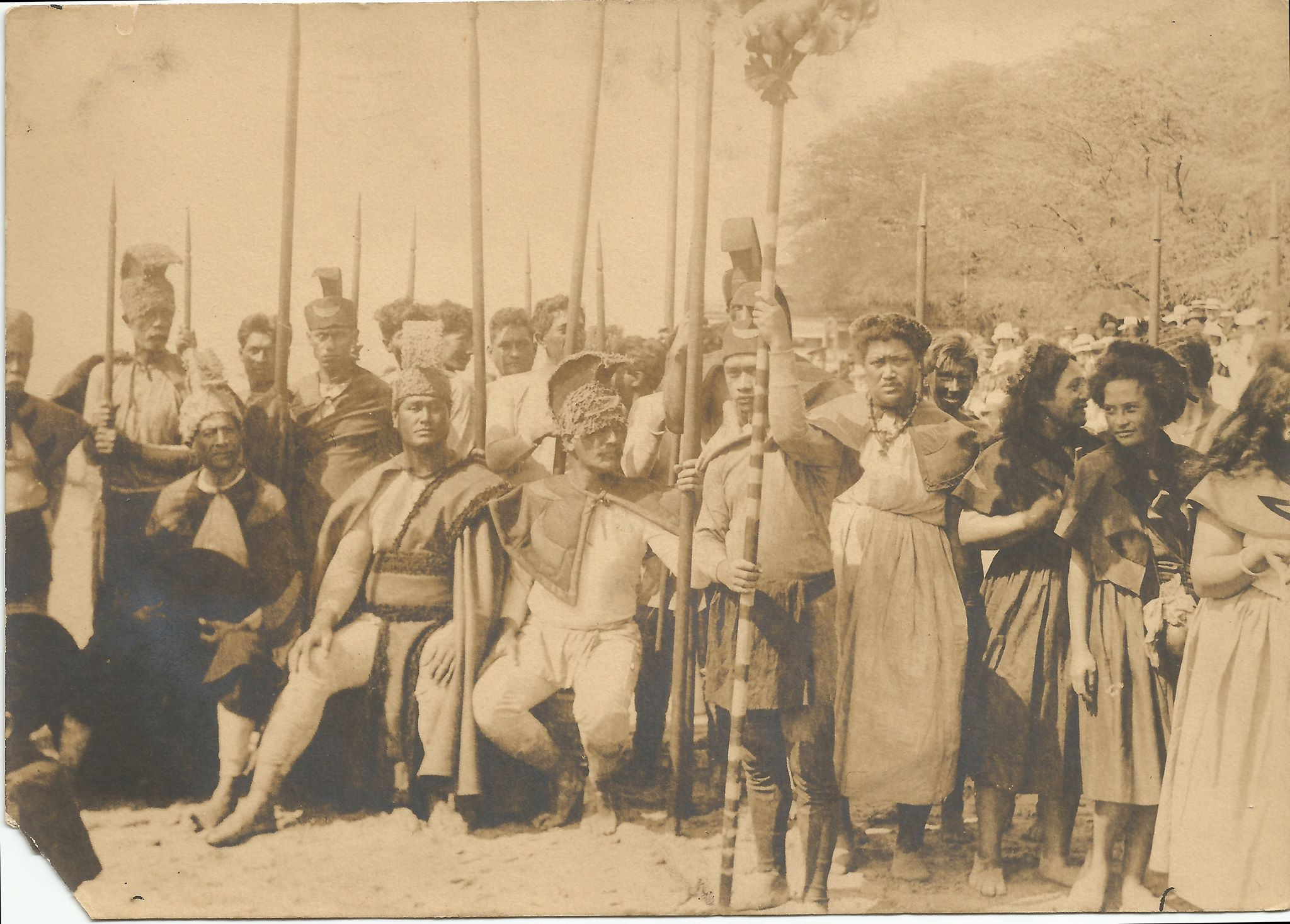 First Kamehameha landing re-enactment of 1913.